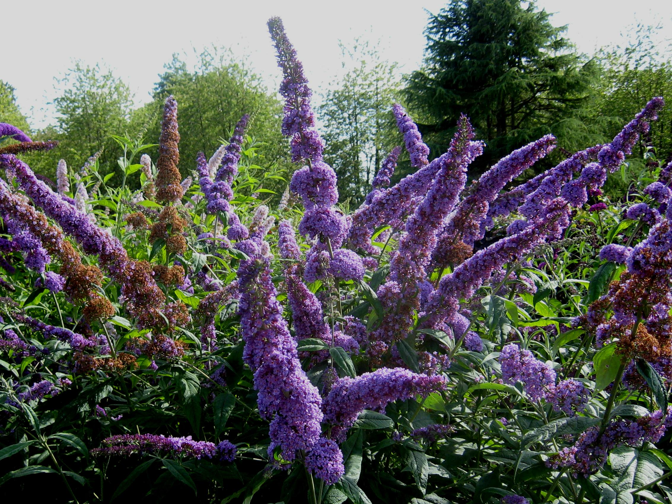 Photo of Buddleja cultivar 'Orchid Beauty' taken at Longstock Park, UK, August 2012